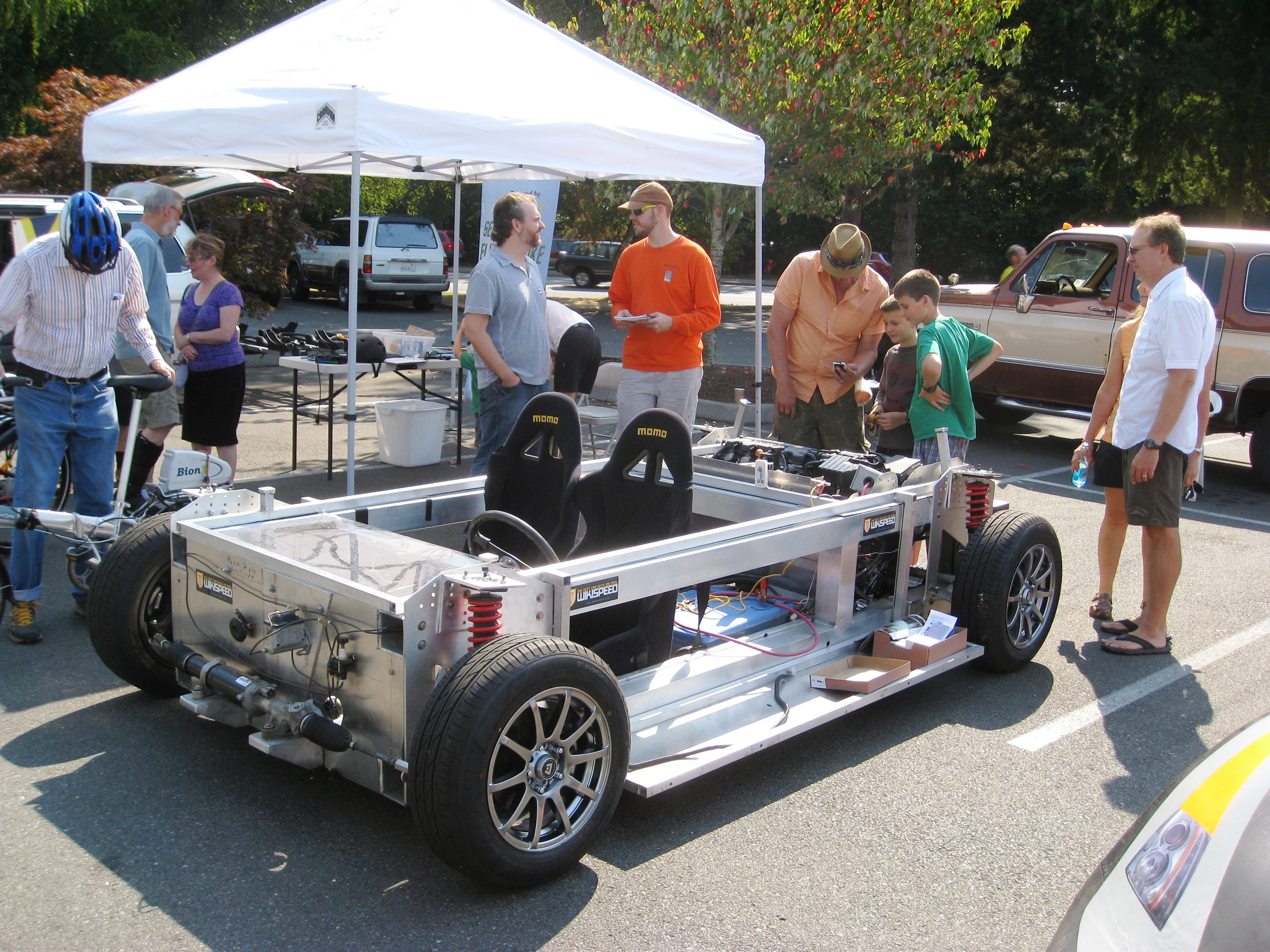 Seen at Electric Vehicle Show at our local farmers market This is a gas powered vehicl, but gets over 100 mpg